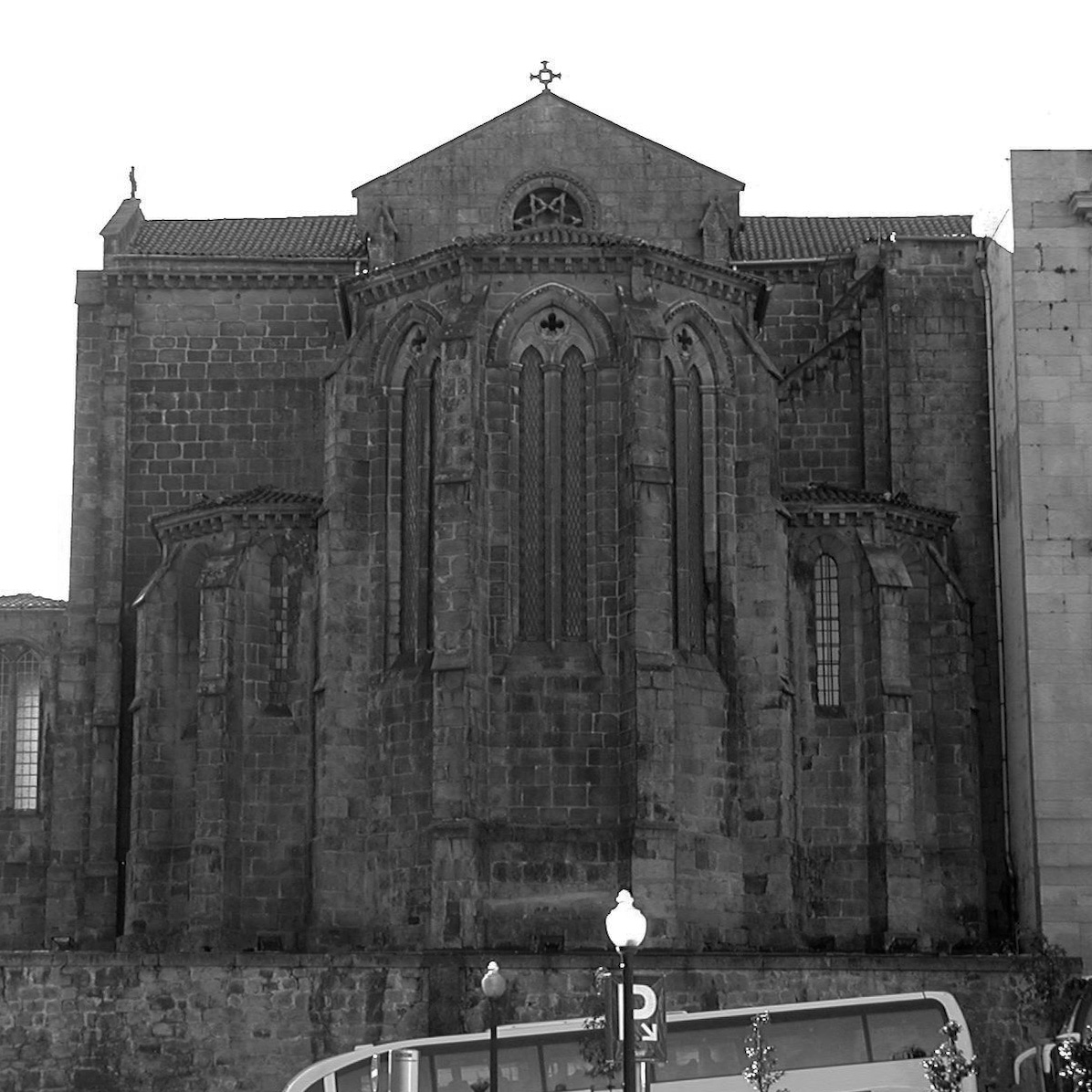 Gothic apse of S. Francisco Church in Oporto, Portugal